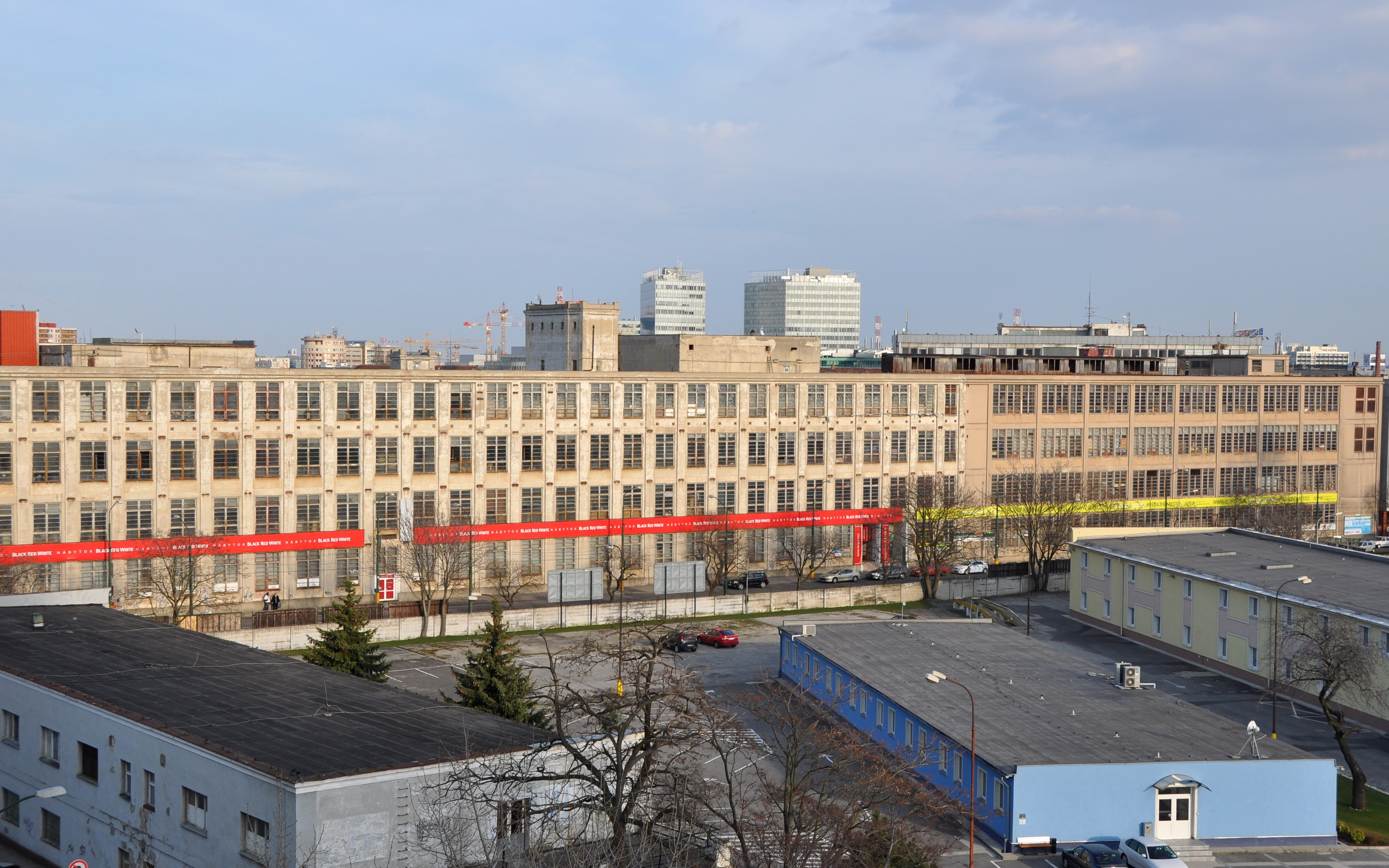 Cvernovka building, Svätoplukova street, Bratislava, March 2010